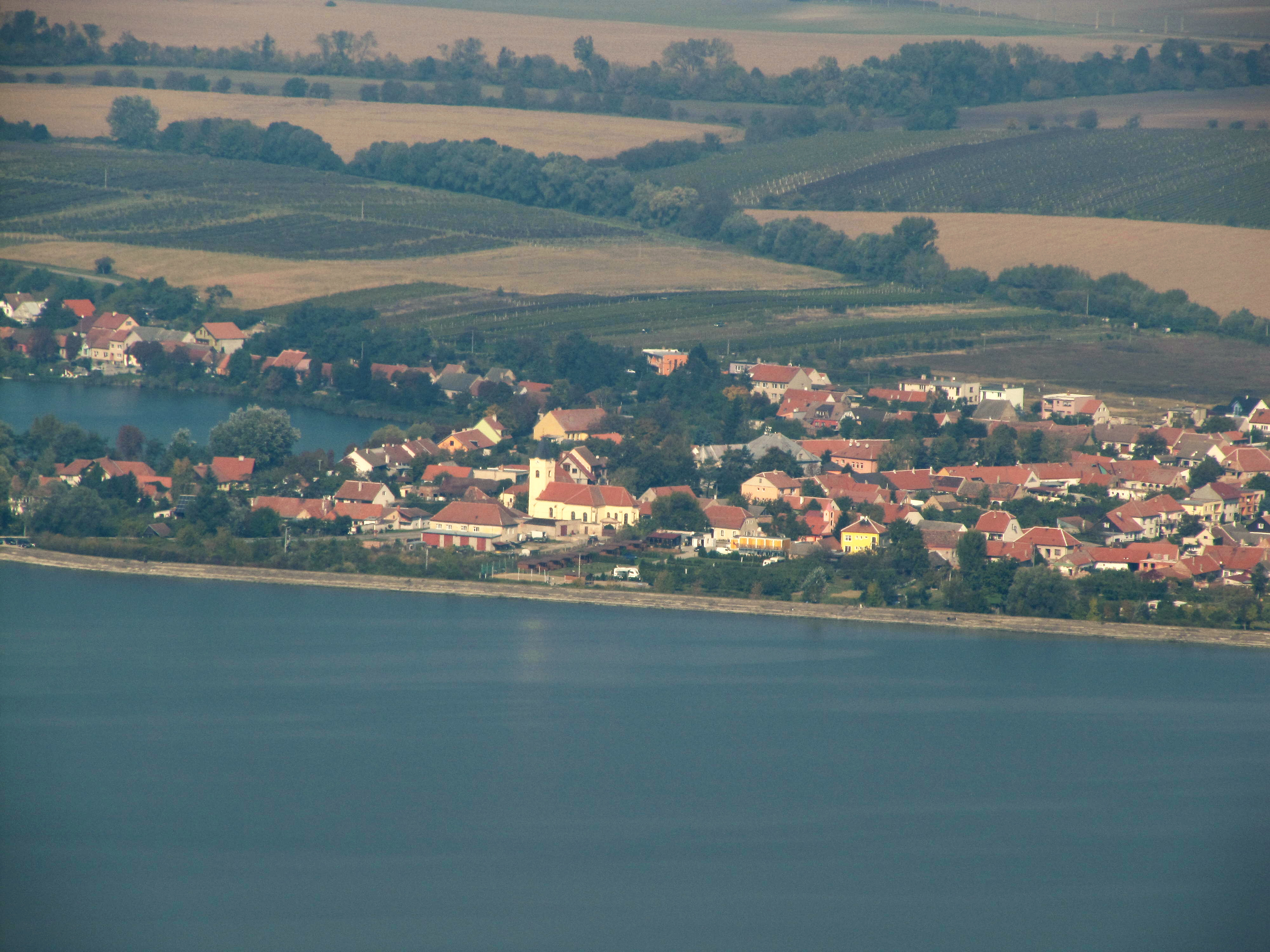 Strachotín in Břeclav District, Czech Republic.General view from ruin Dívčí hrady.